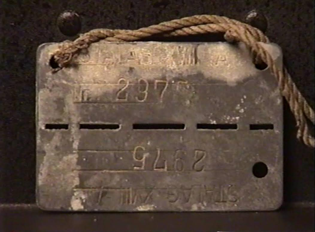 Royal Pioneer Corps dog tag